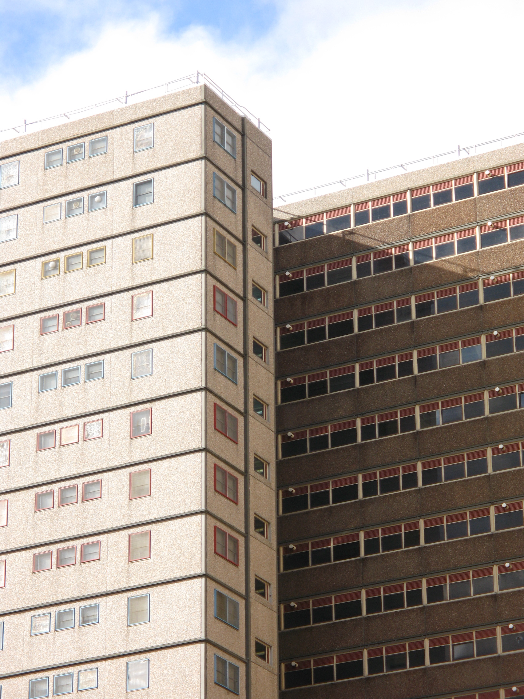 A section of the Wellington Street Housing Commission high rise apartment building in Collingwood, Victoria. Photo taken by Nick carson in 2008.